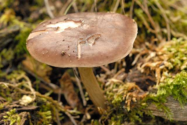 Pluteus spec. (maype Pluteus cervinus) from Commanster, Belgian High Ardennes. The determination of the species shown in this picture has been verified.